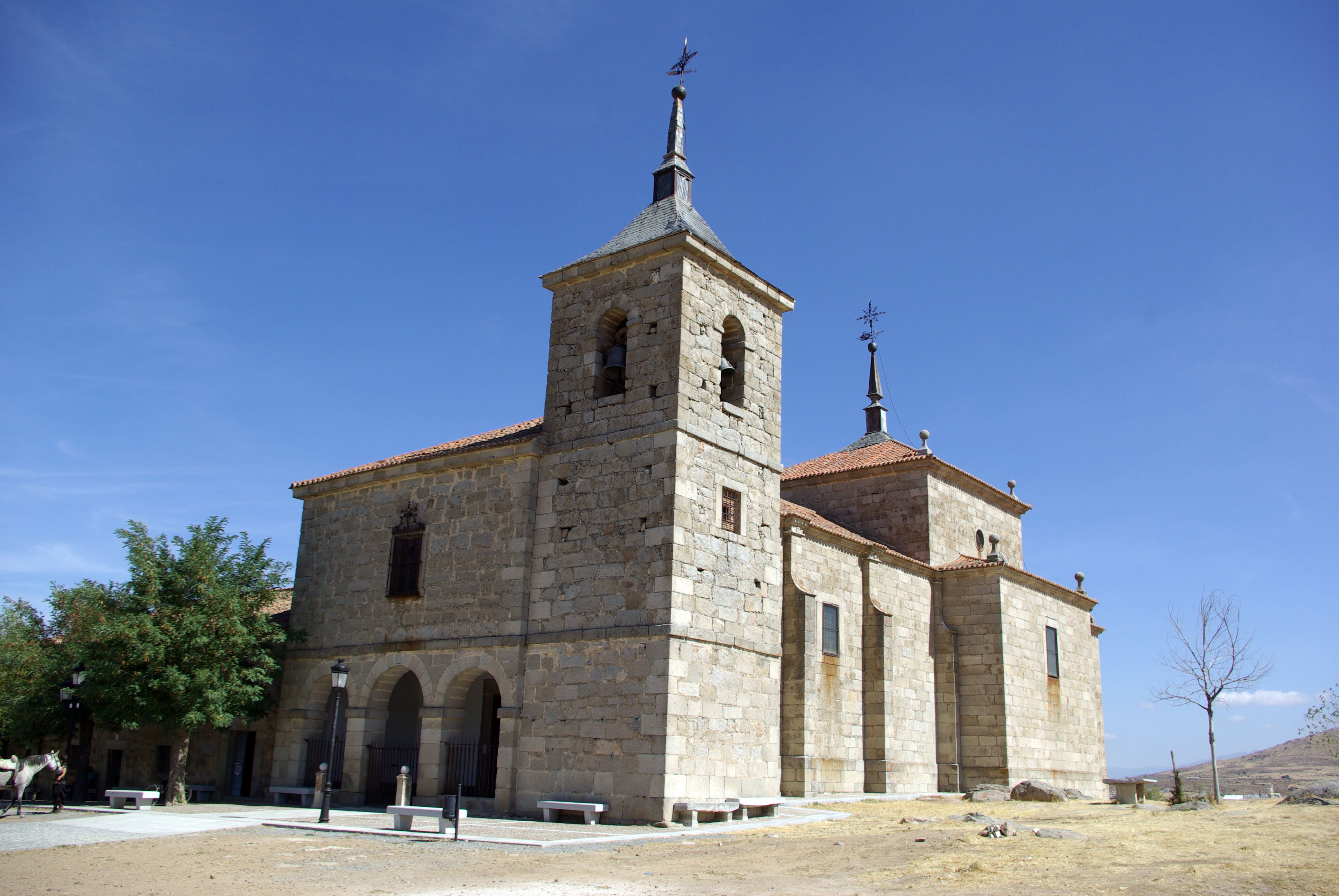 Our Lady of Cubillo hermitage in Santa María del Cubillo (Ávila, Spain)